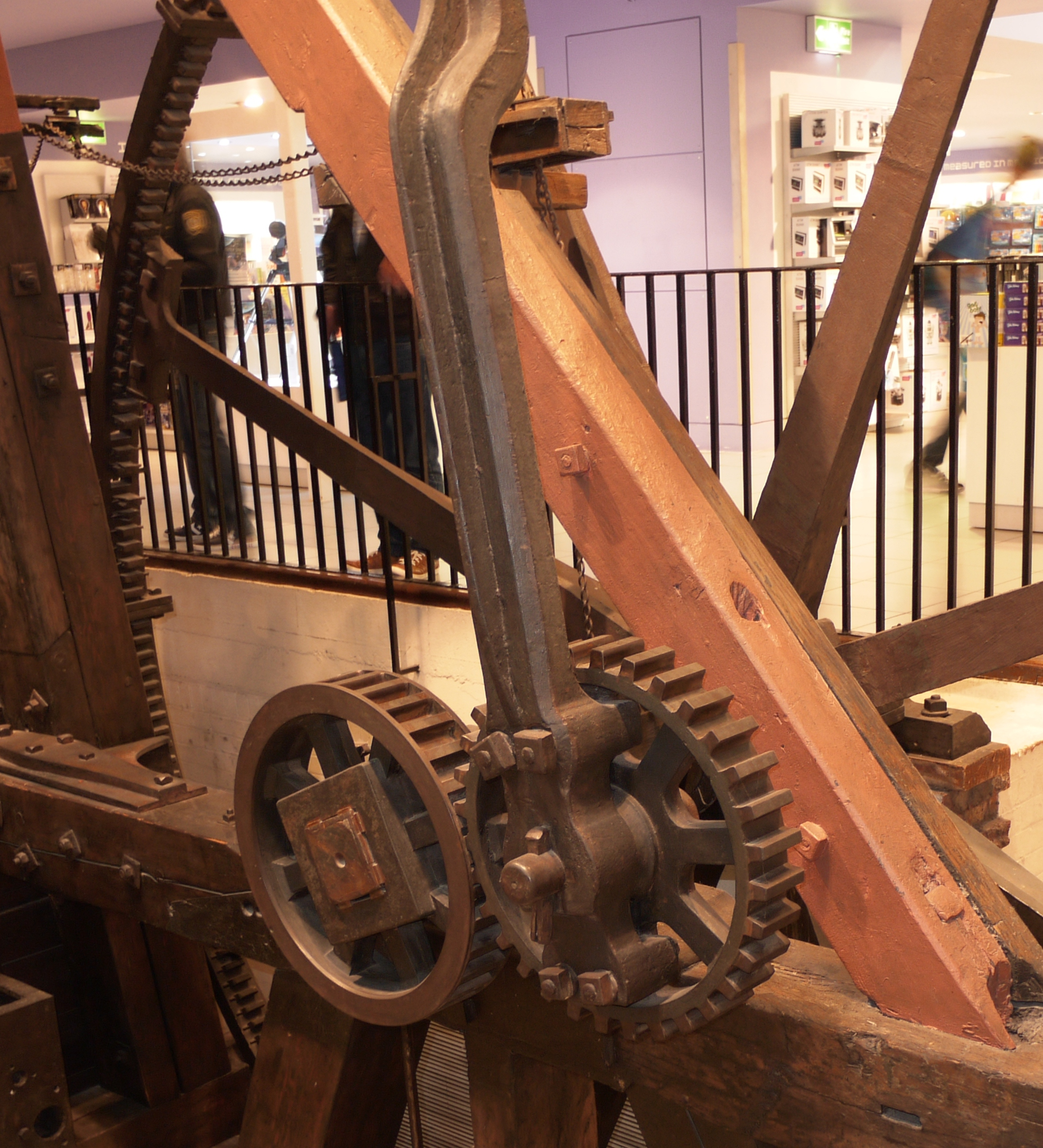 Photo of a Sun and planet gear on a Boulton & Watt beam engine of 1788